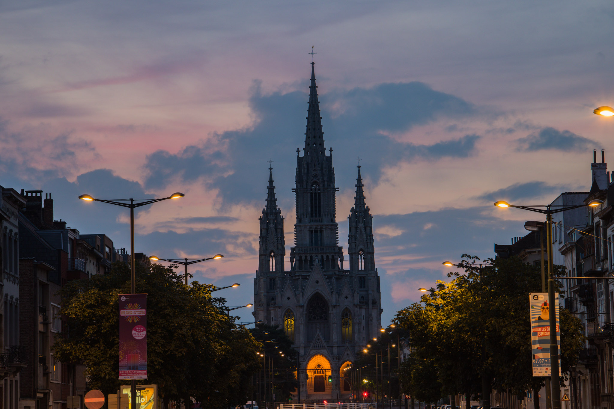 Church of our lady during one of the beautiful sunset